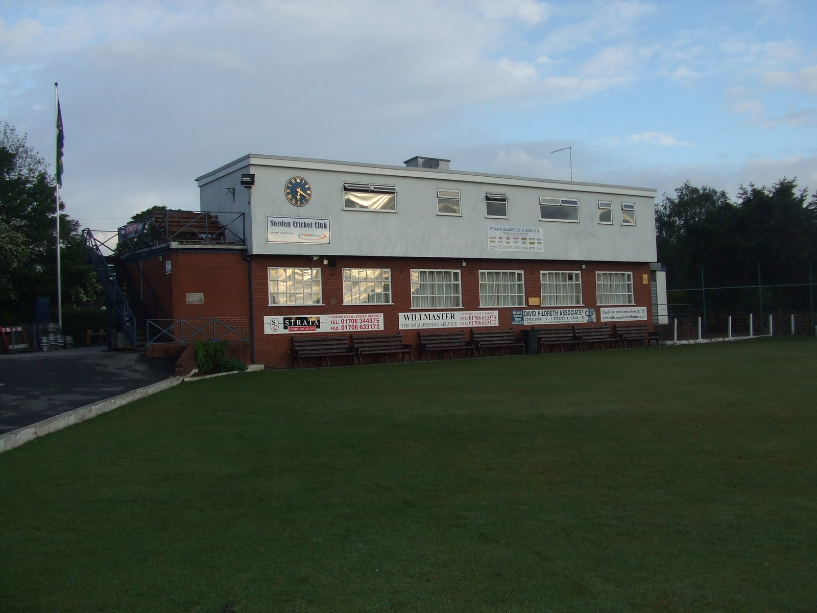 Norden Cricket Club play in the Central Lancashire League. Their Stag Park ground is off Woodhouse Lane. This image was taken from the Geograph project collection. See this photograph's page on the Geograph website for the photographer's contact details. The copyright on this image is owned by BatAndBall and is licensed for reuse under the Creative Commons Attribution-ShareAlike 2.0 license. Attribution: BatAndBall